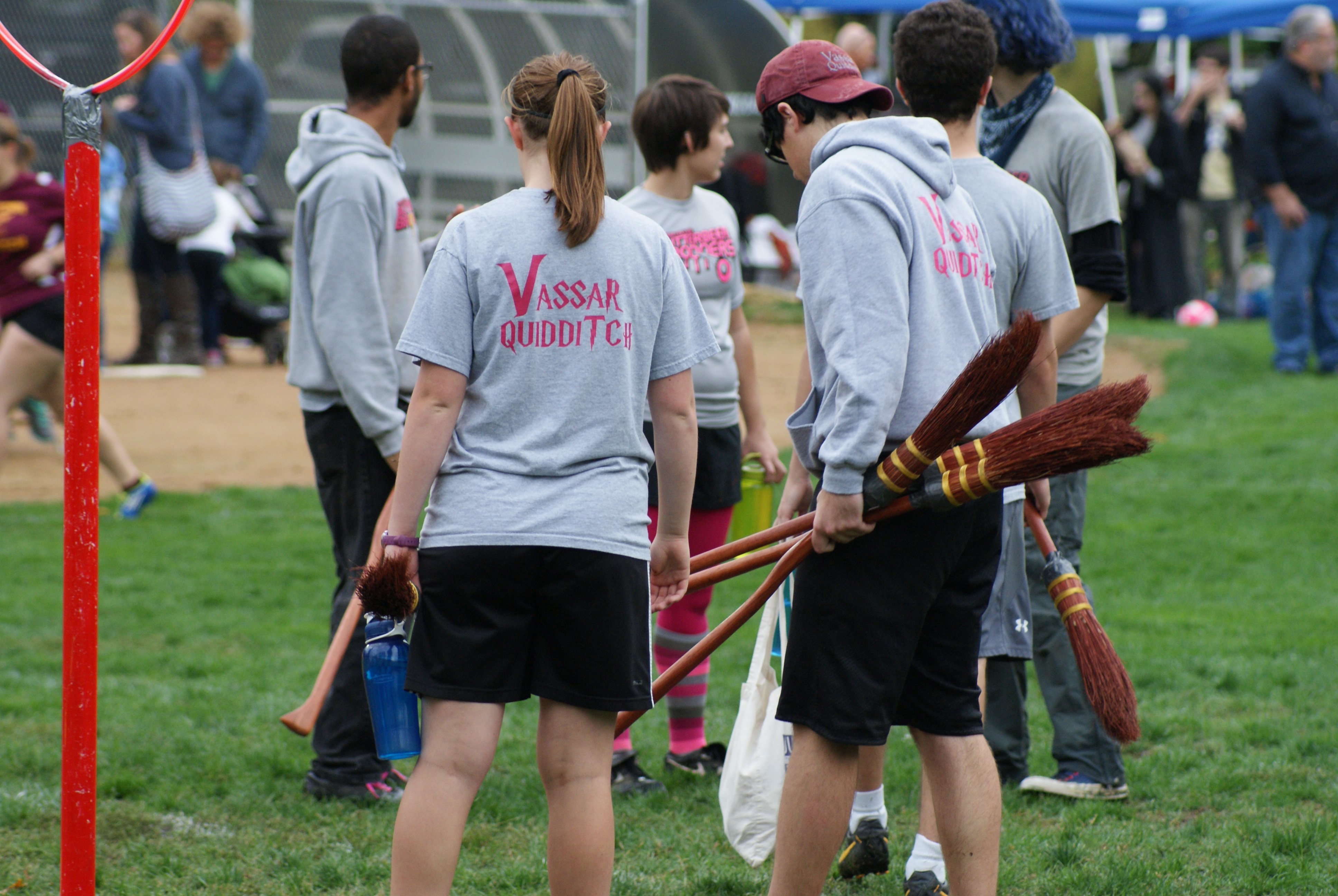 The Vassar College muggle quidditch team, the Butterbeer Broooers, at a meet at Chestnut Hill College in Philadelphia, Pennsylvania, US.